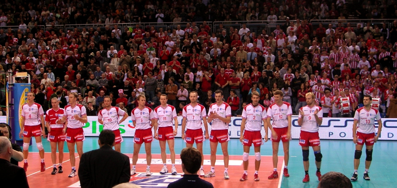 Resovia Asseco Rzeszów - Polish volleyball team, based in Rzeszów, playing in Polish Volleyball League (Polska Liga Siatkówki, PLS)